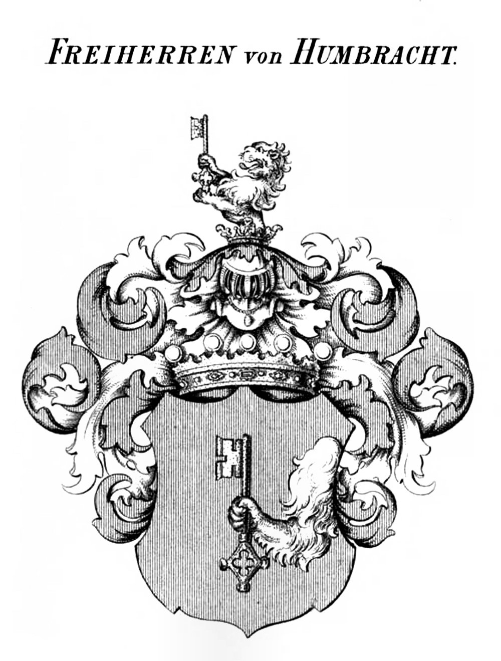 Wappen Humbracht - Tyroff AT.jpg